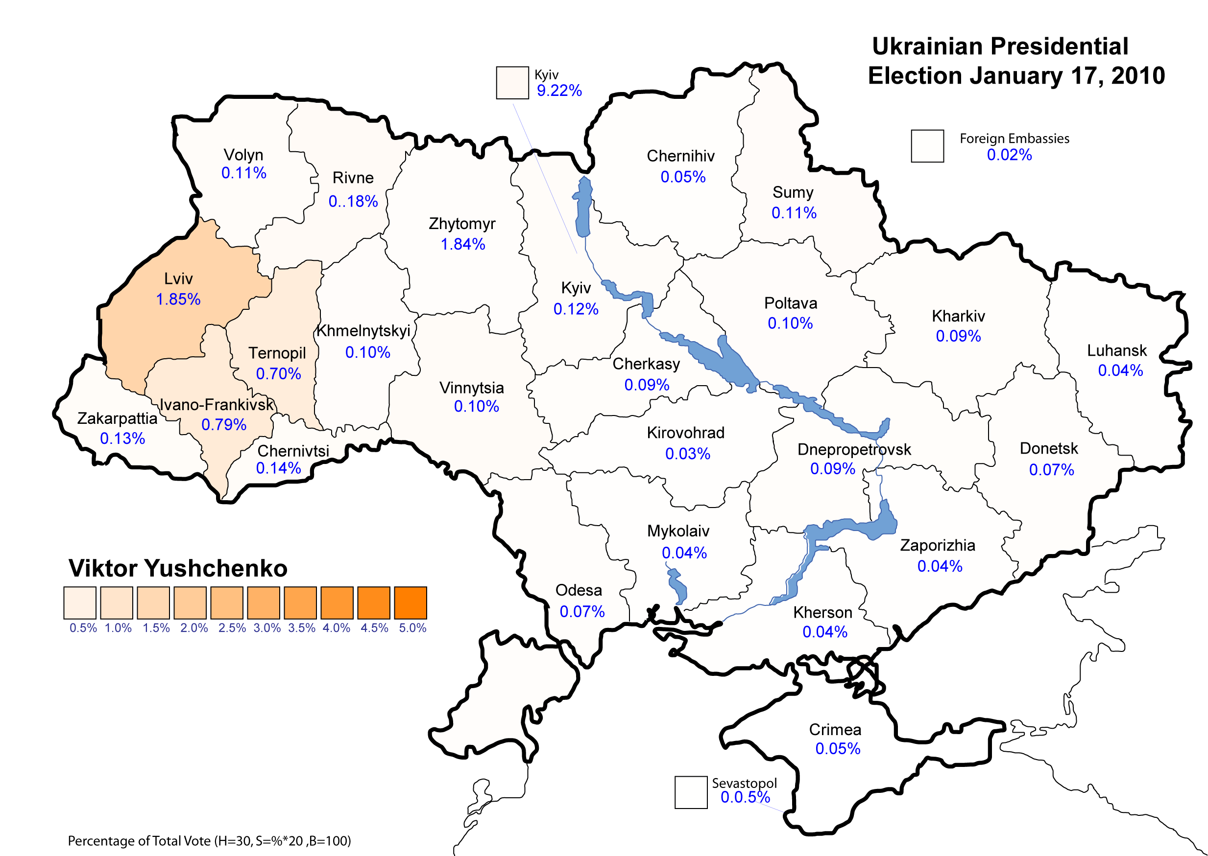 Ukrainian Presidential Election January 17, 2010 - Viktor Yushchenko (First Round)